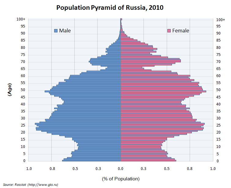 Population pyramid of Russia as of January 1, 2010. Data from the Federal State Statistics Service of Russia